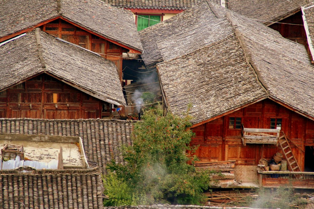 some Songpan houses from above.